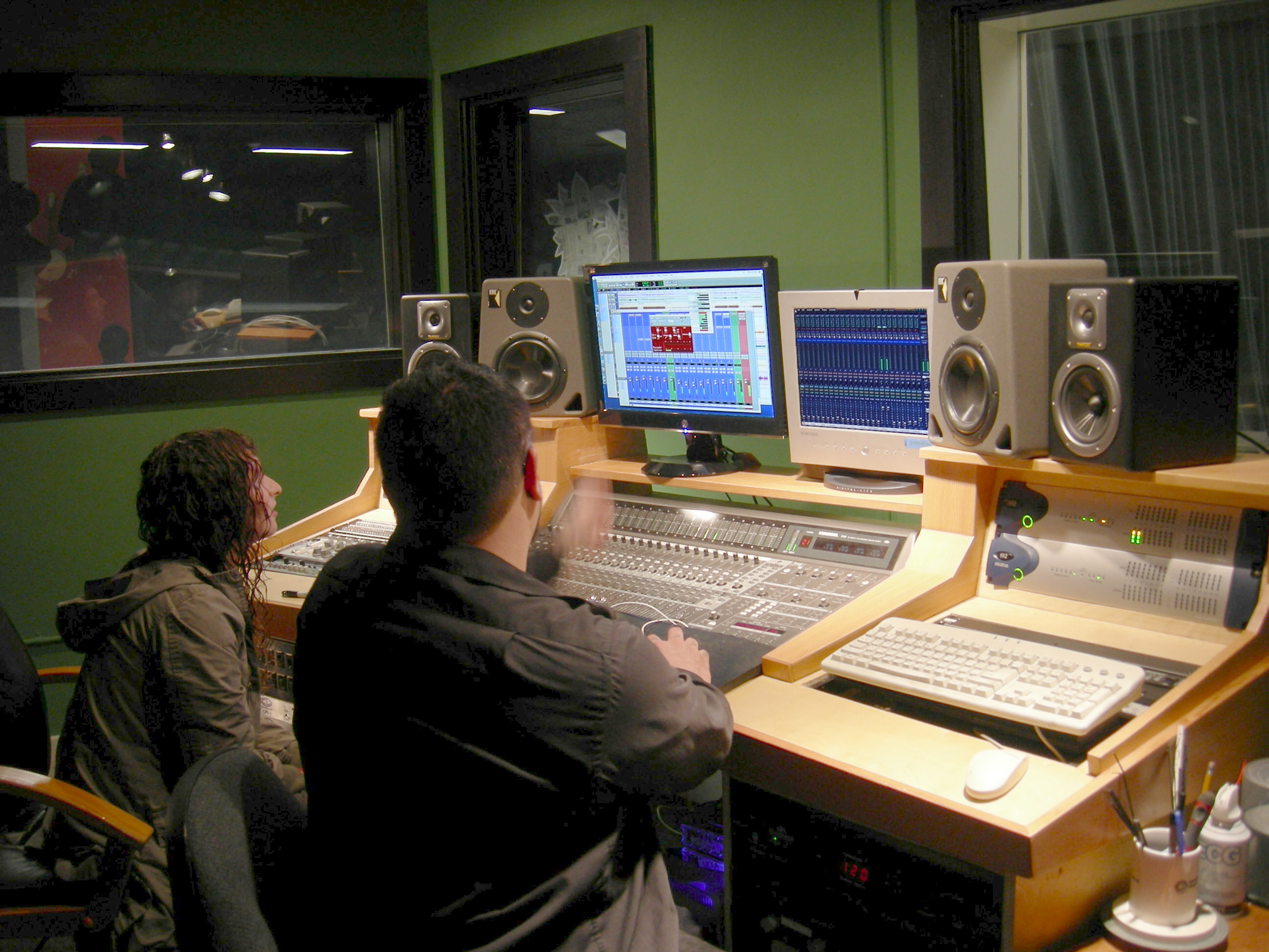 Shana (last name unknown) and Jeff McNulty of BlöödHag in the recording studio at The Vera Project space at Seattle Center, Seattle, Washington. The Vera Project is an all-ages music and art center. digidesign Protools HD Mackie D8B KRK Rokit TAPCO S•8